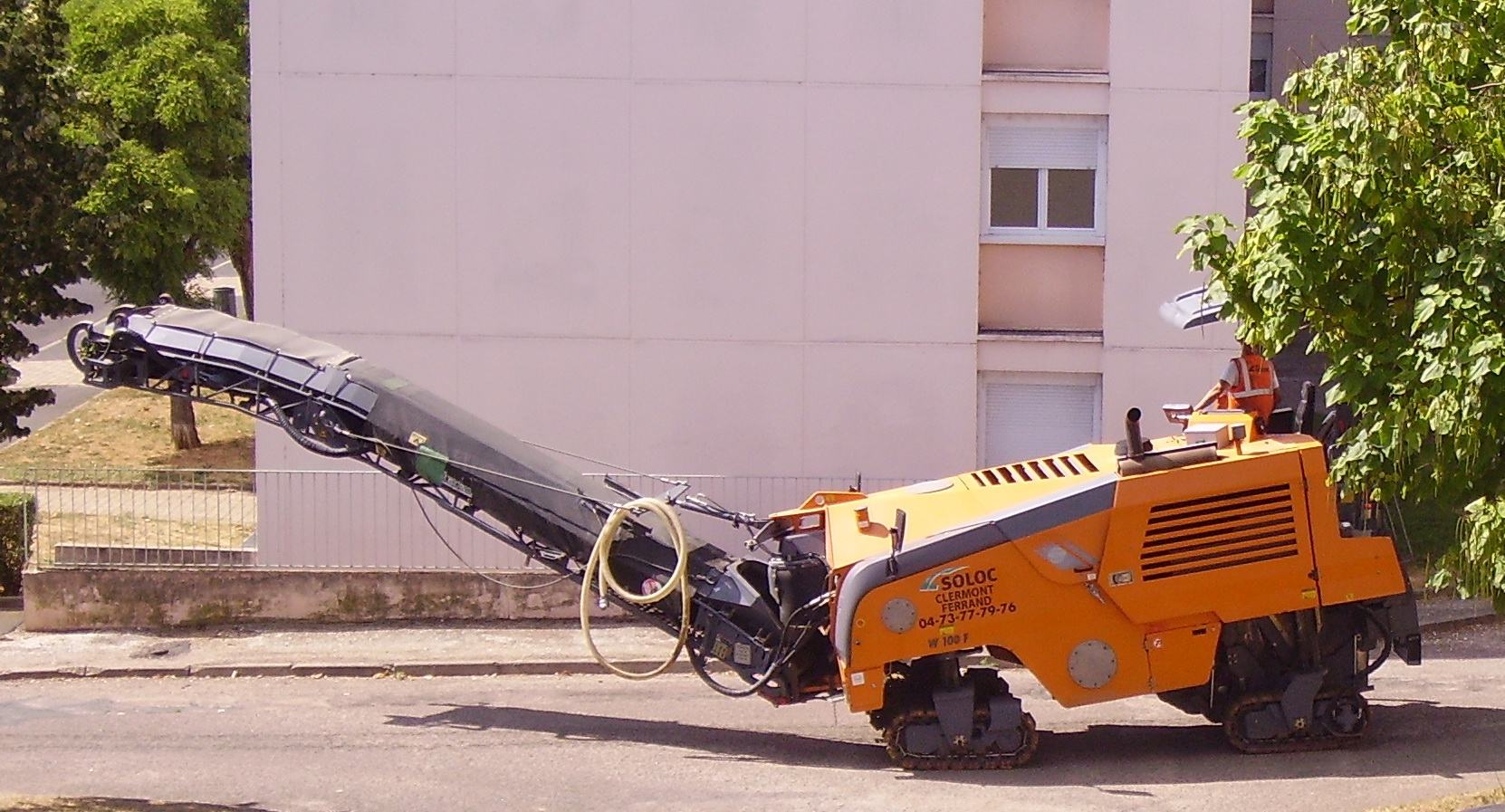 Cold milling machine Wirtgen W 100 F.